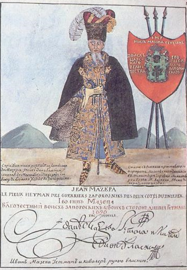 Hetman Ivan Mazepa 1690